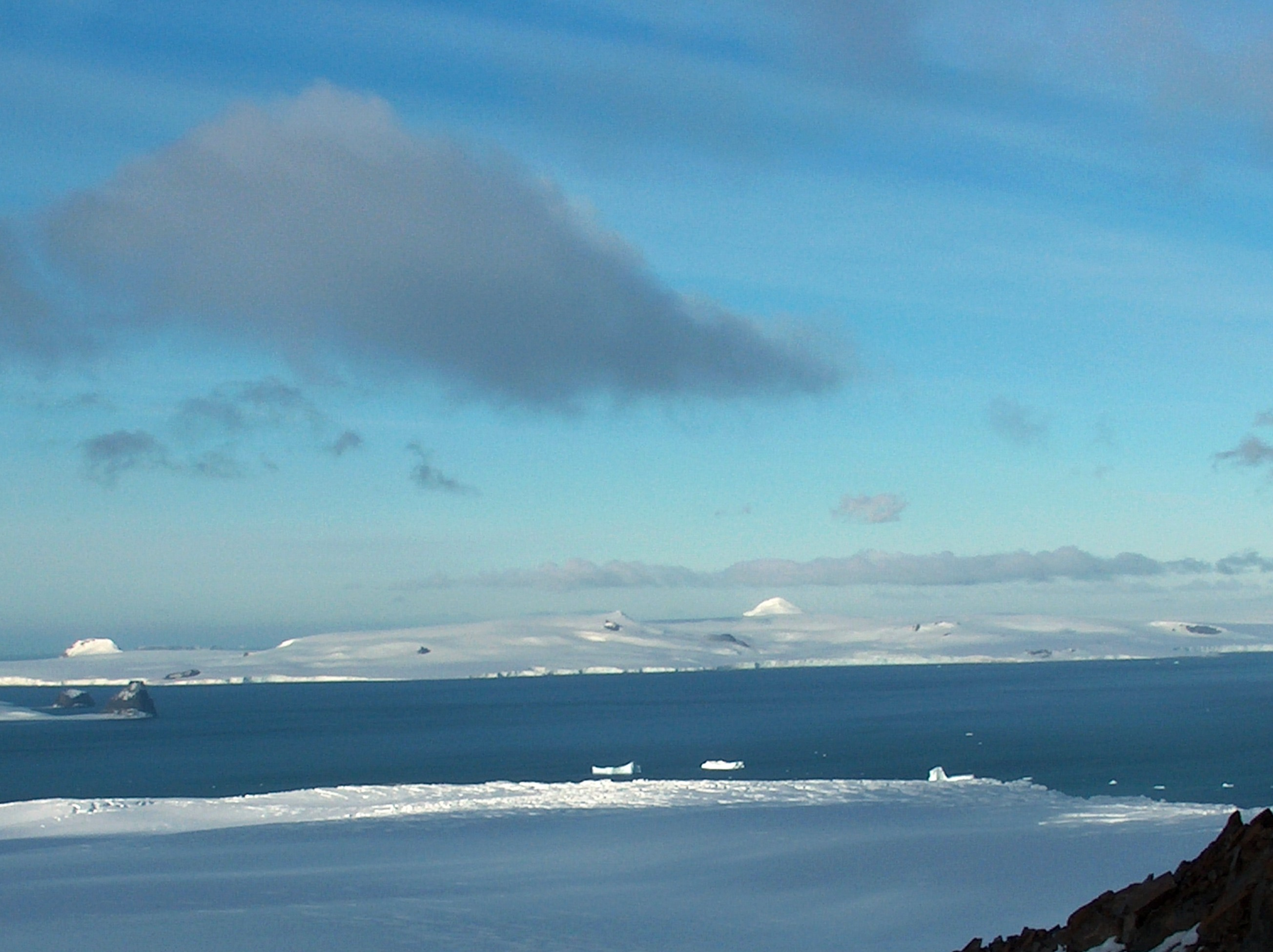 The Dryanovo Heights is located in the southwest area of Greenwich Island. source: Lyubomir Ivanov